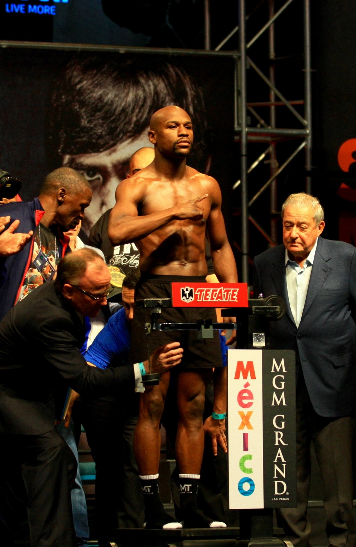 Mayweather jr during the official weigh-in for his 2 May 2015 match against Manny Pacquiao.